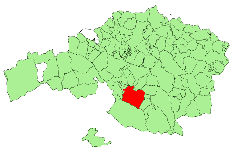 Zeberio municipality in the province of Biscay